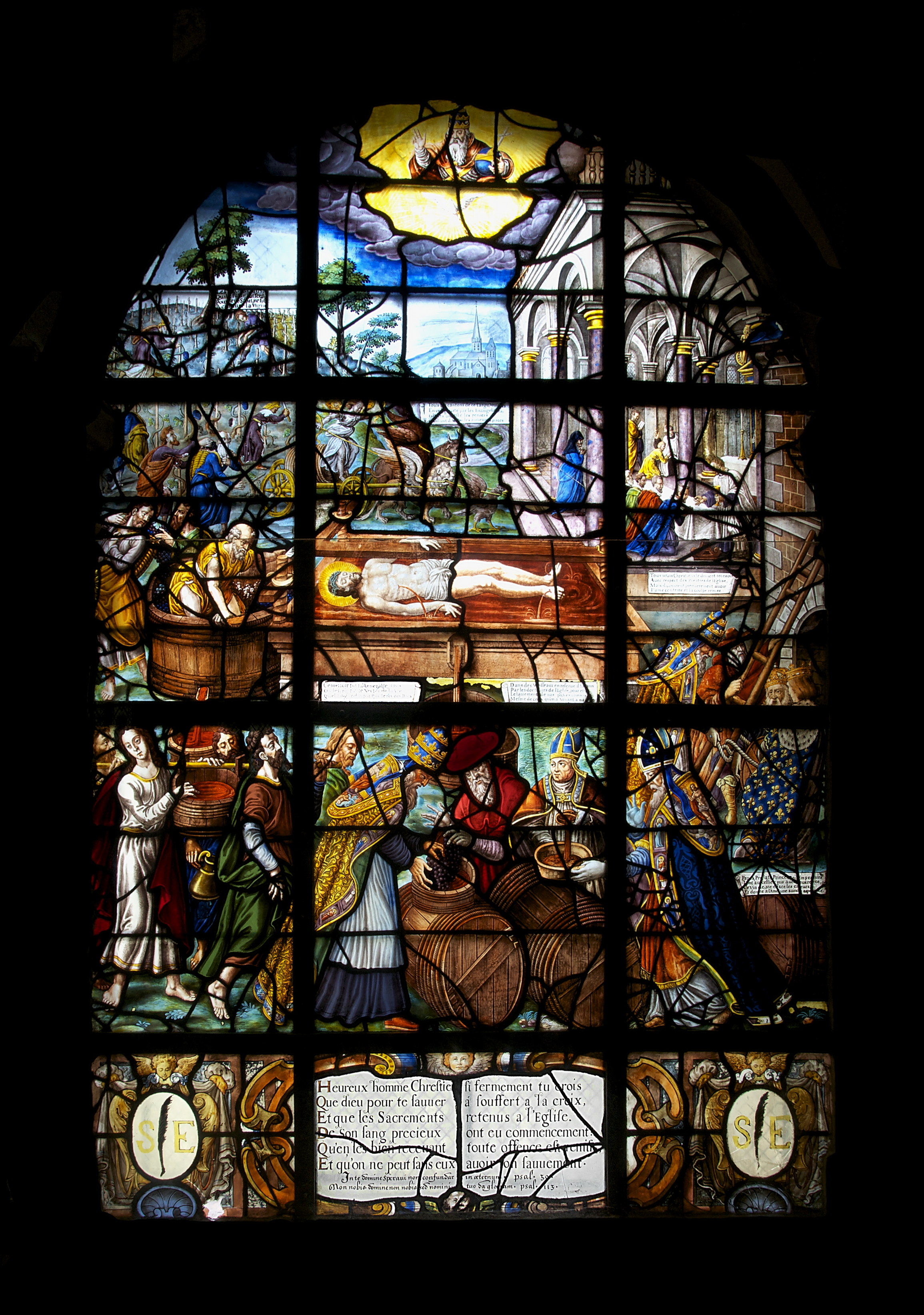 "Christ in the winepress", stained glass windows, early 17th century, Church Saint-Etienne du Mont, Paris